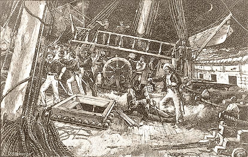 Engraving: 'Captain Decatur wounded', Engraving after painting by J.O. Davidson, published later 19th Century